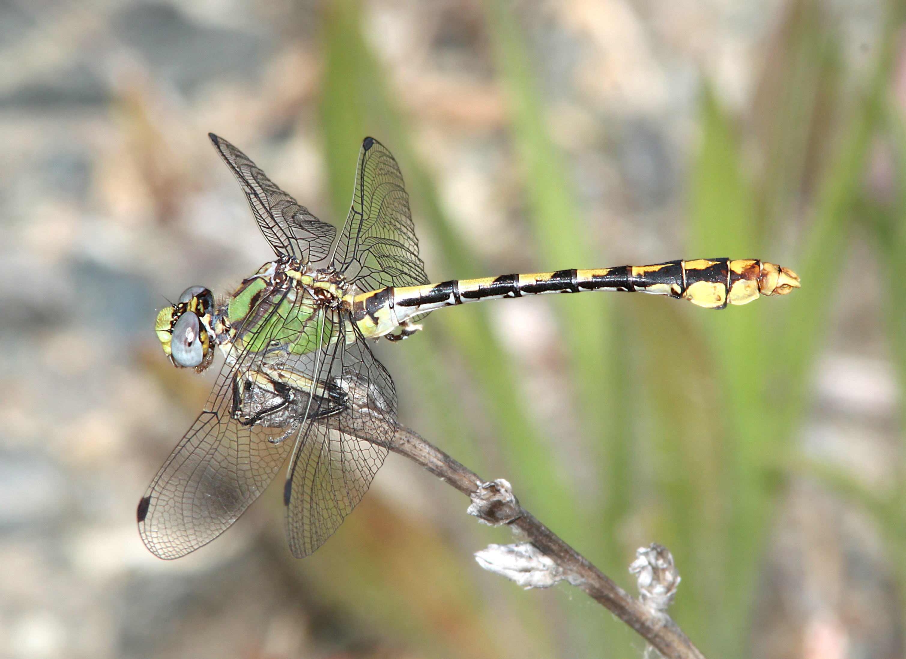 ODONATA